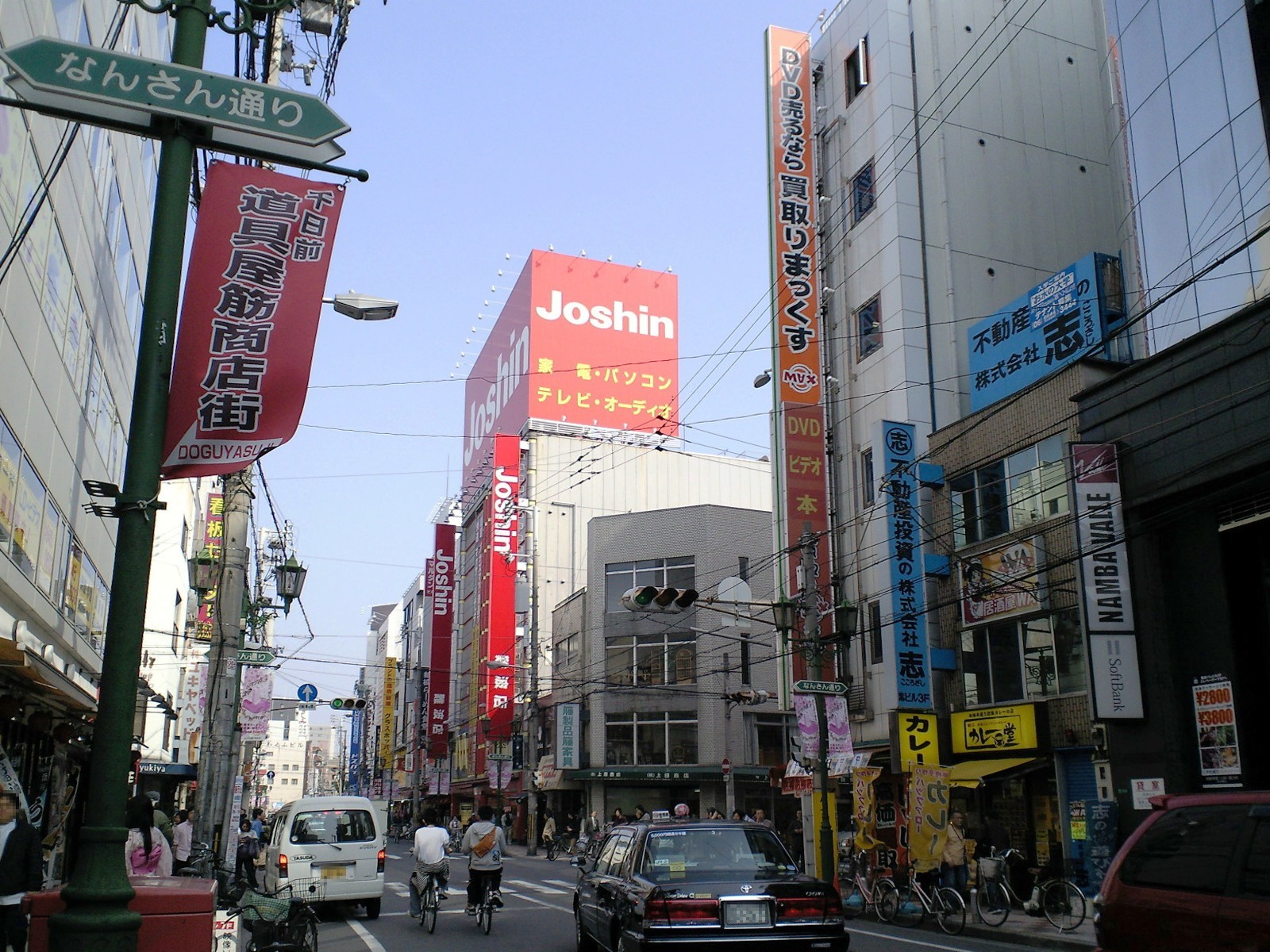 Nansan-dori in Osaka, Japan